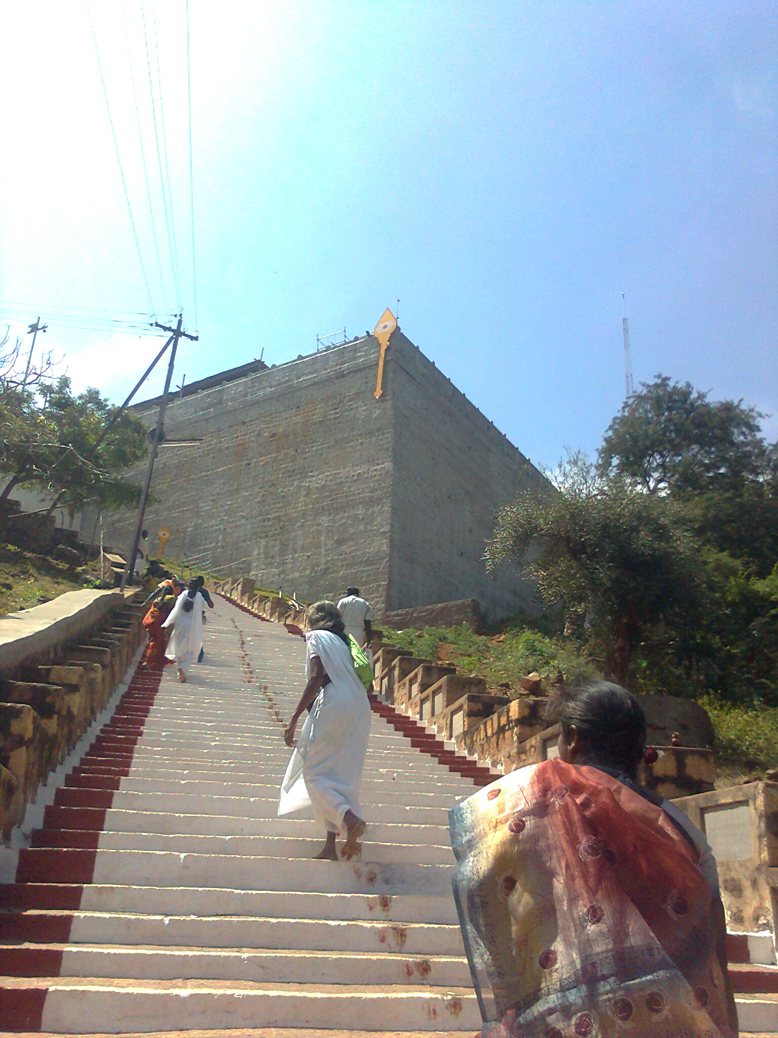 this is one of the historical temple in tamil nadu.